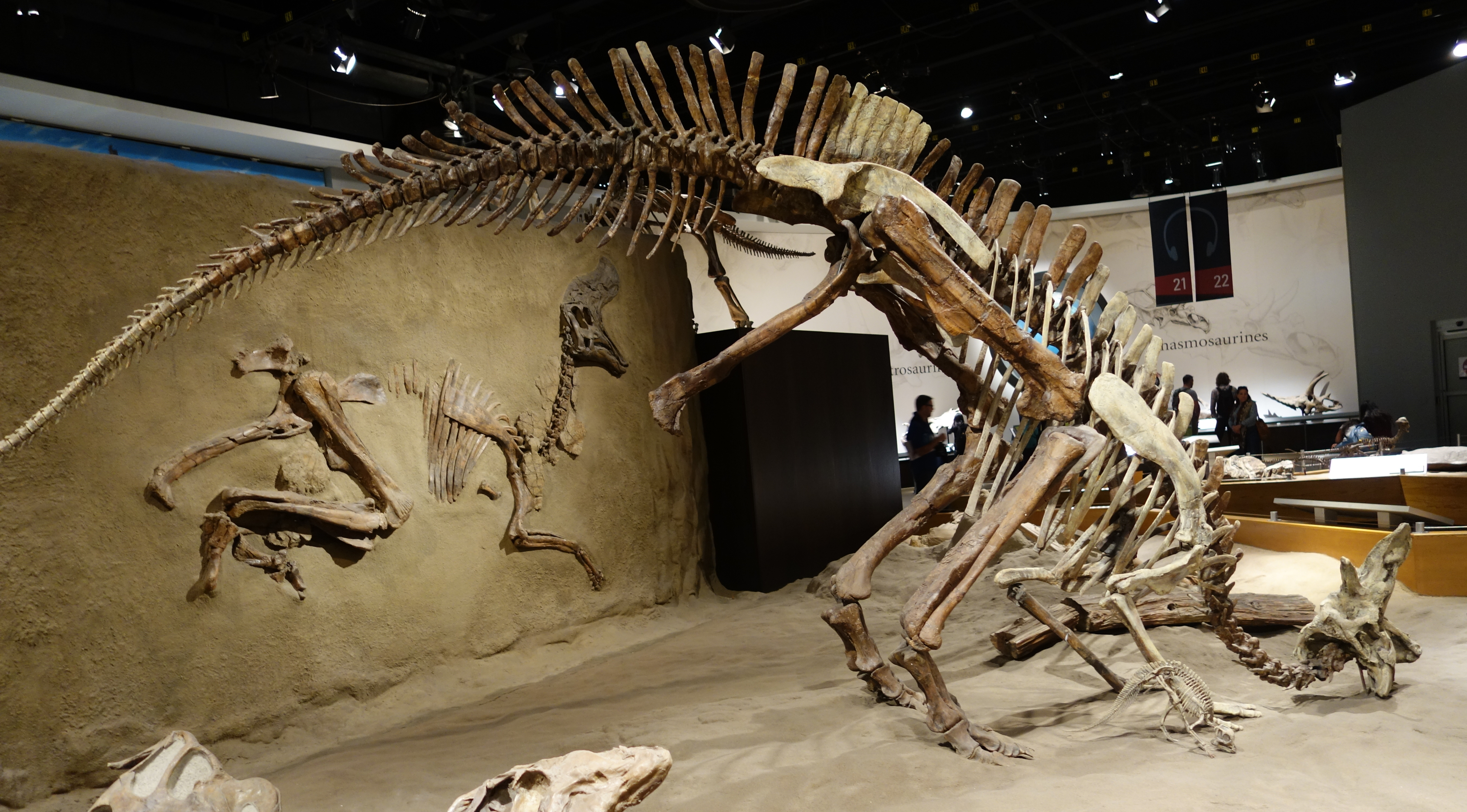 Lambeosaurus skeletal mount. On display at the Royal Tyrrell Museum, Alberta.